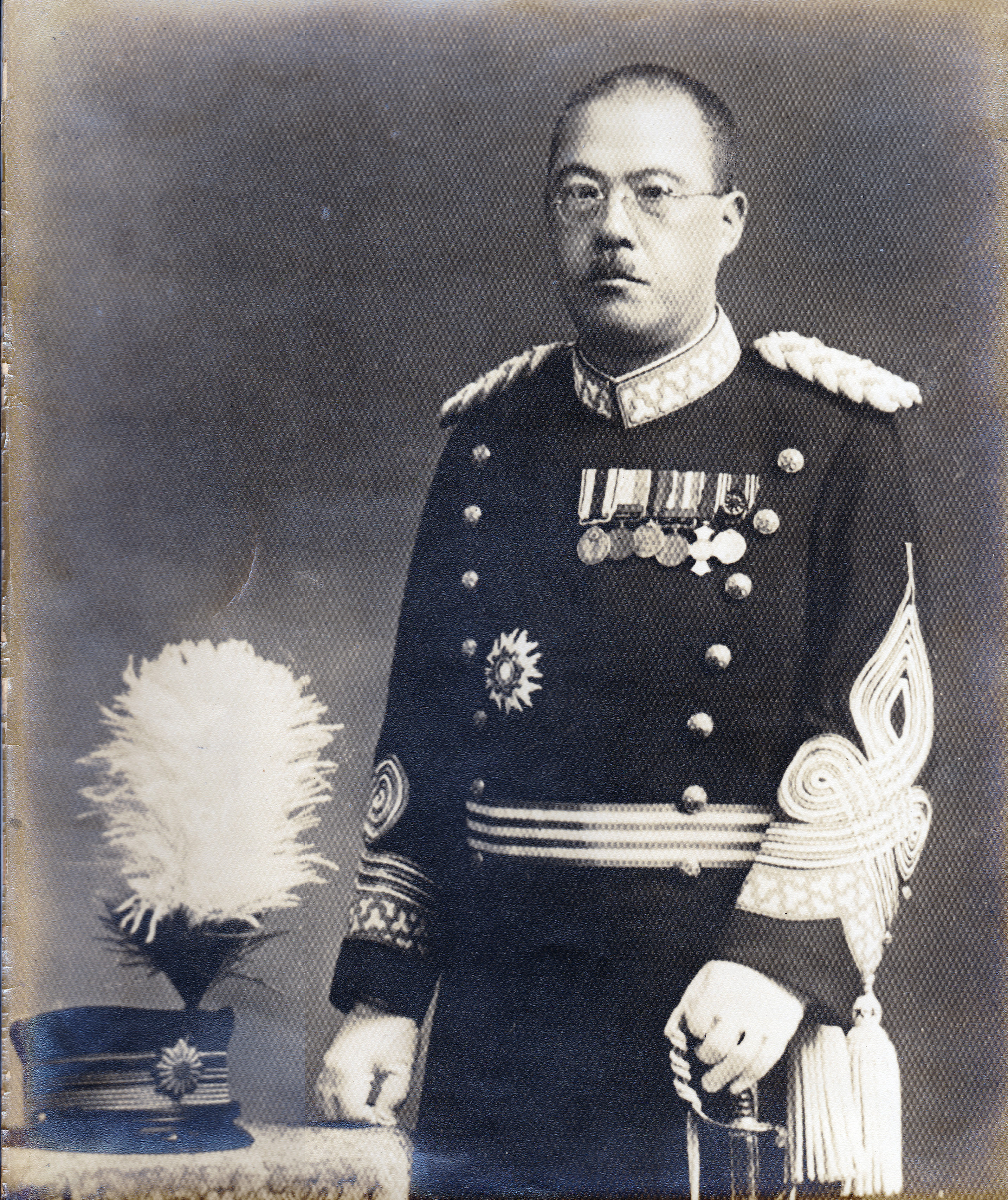 Masaaki Koike (Surgeon General of the Imperial Japanese Army, Baron, M.D.)